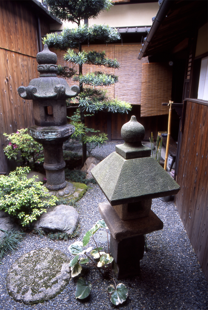 Traditional courtyard in Kyoto, Japan.